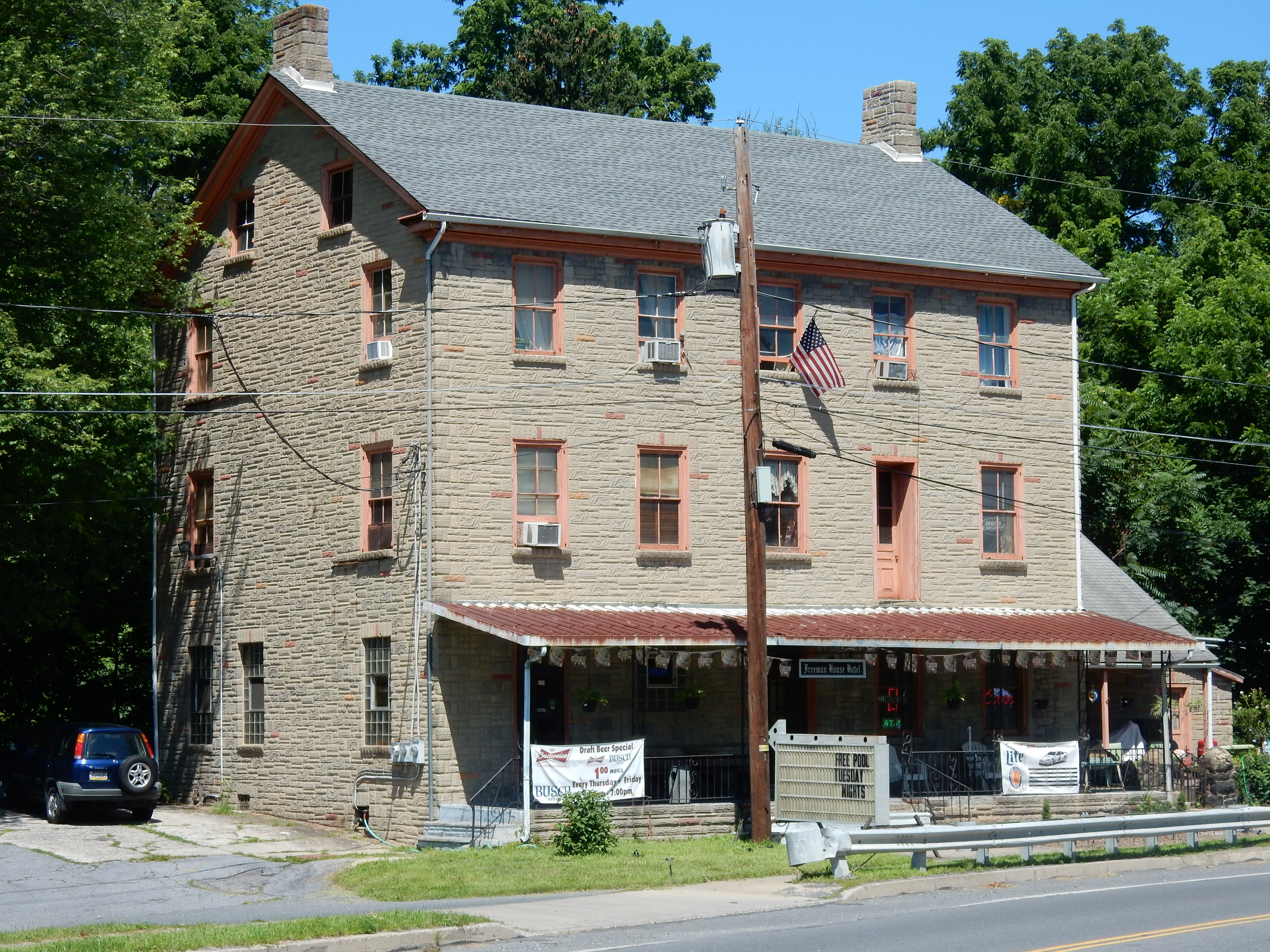 Freeman House Inn, 30 Main St., Freemansburg, Northampton County, Pennsylvania.